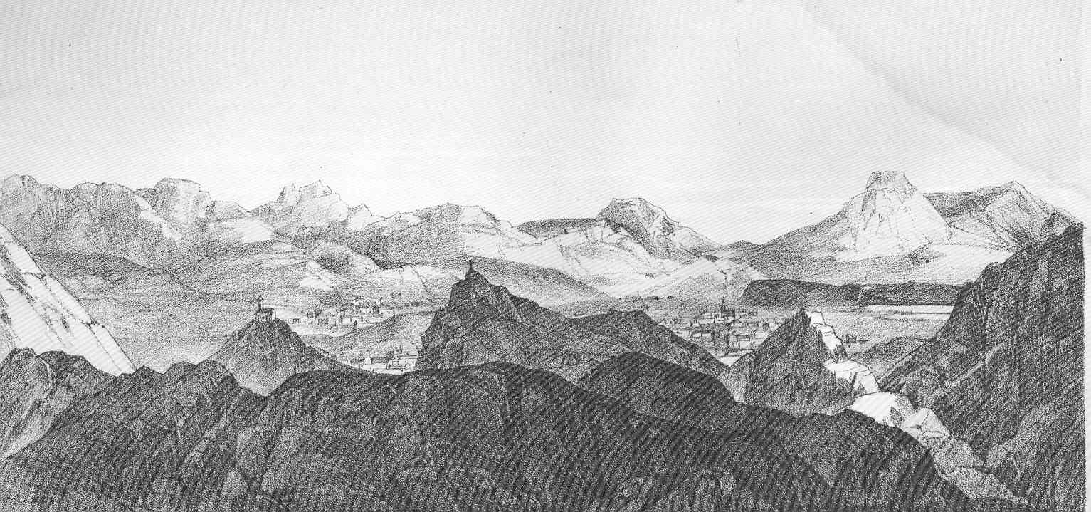 Cerro de Pasco Subject: Cerro de Pasco (Peru) Geographic Subject: Peru--Cerro de Pasco Tag: Coasts